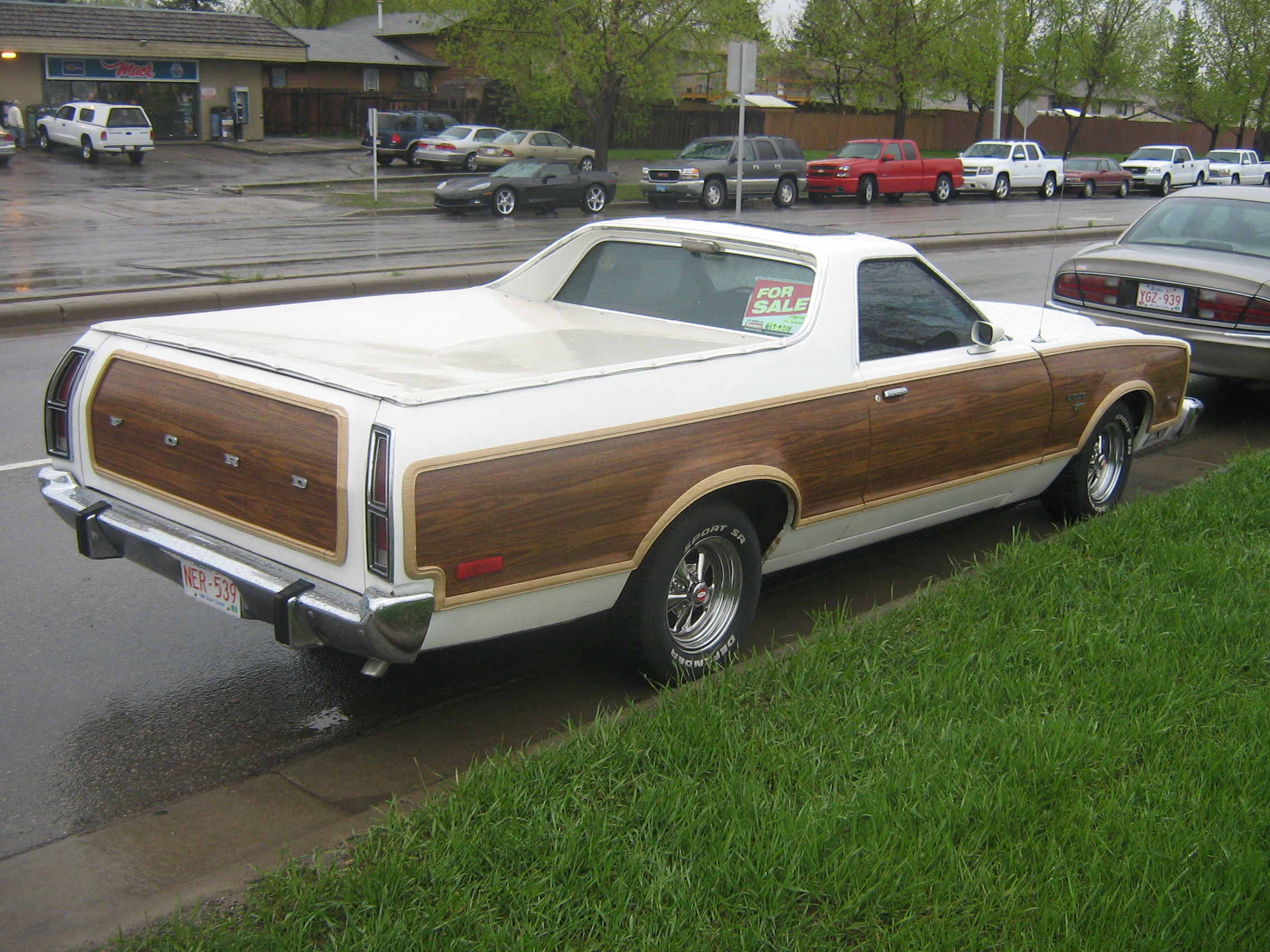 Ford RancheroIn the parking lot at the Okotoks collector car auction was this Ford Ranchero